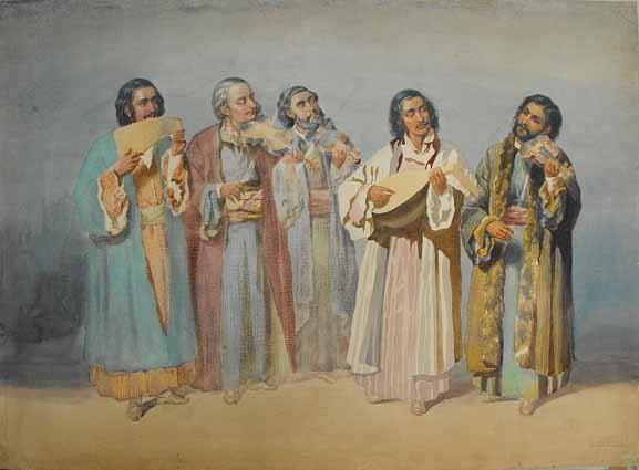 Taraf of Ochi-Albi, 1860, Bucharest, pencil and watercolor. The term taraf refers to a group of traditional Romanian musicians.